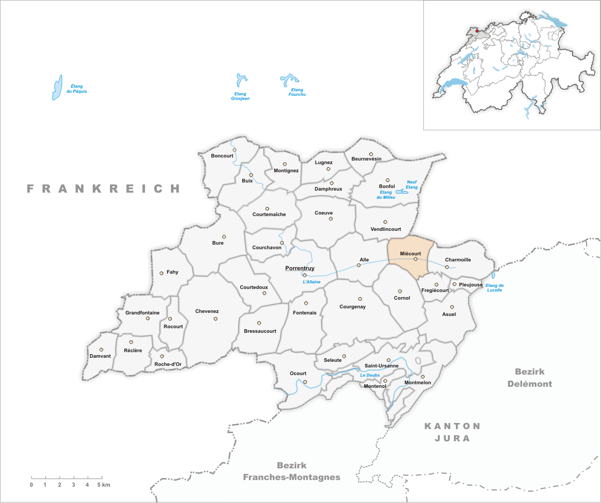 Municipality Miécourt